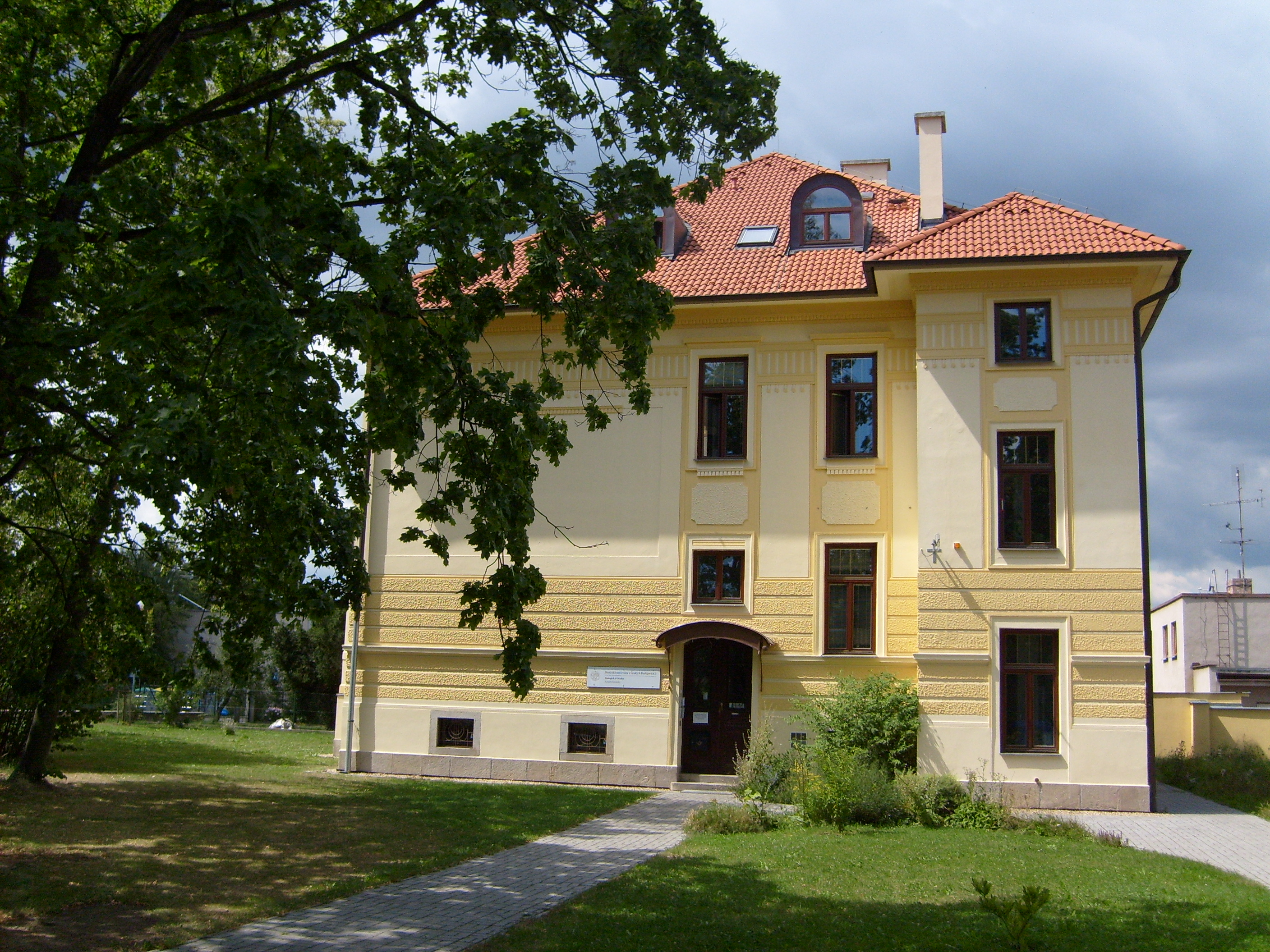 Department of Botany, University of South Bohemia, České Budějovice, Czech republic